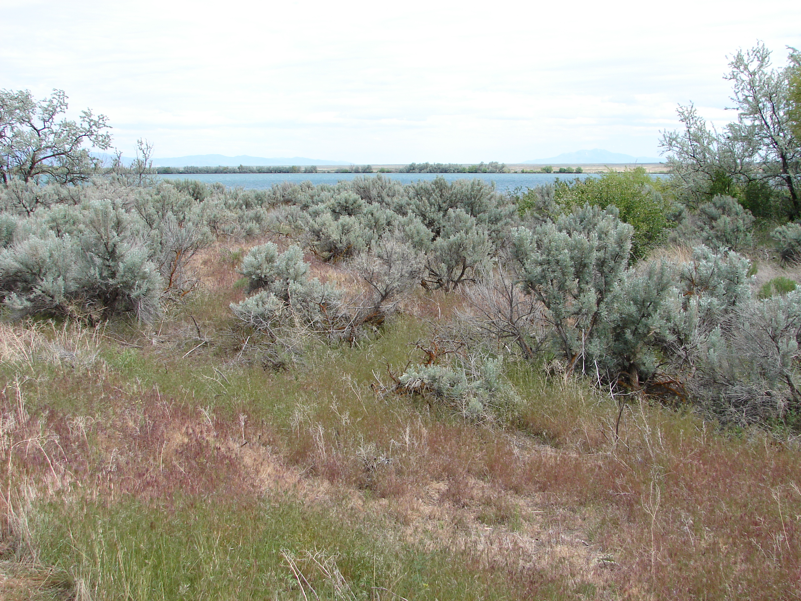 Sagebrush, close to Lake Walcott — in the Minidoka_National_Wildlife_Refuge, Idaho.